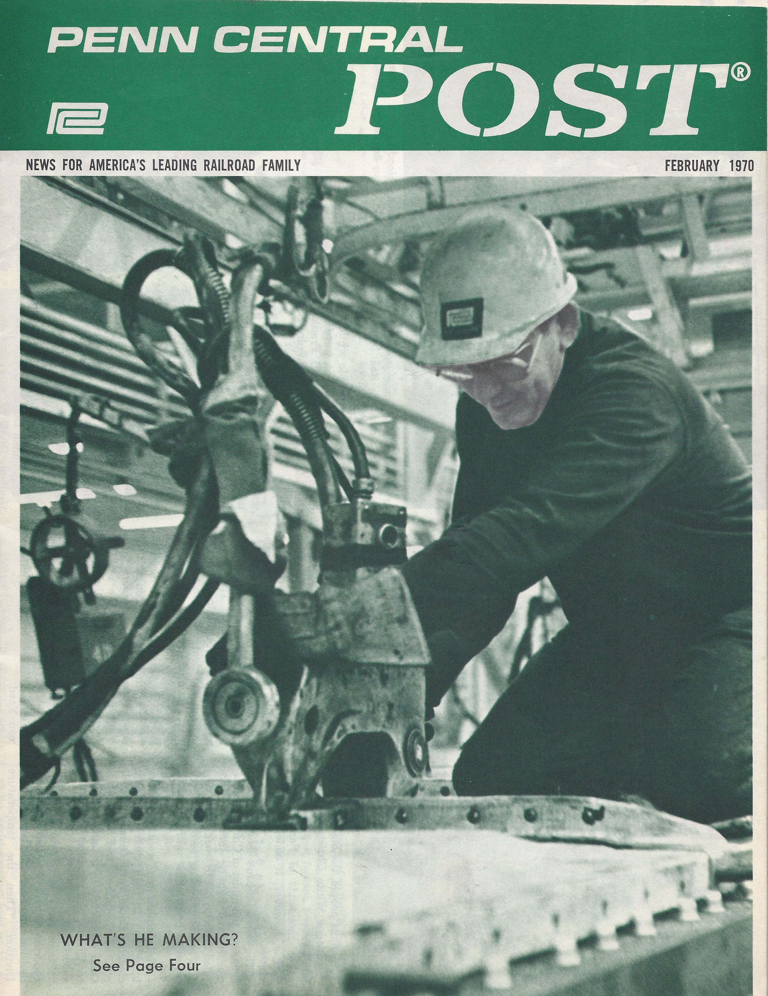 Penn Central sheet metal worker A. A. Muhlbauer of Samuel Rea Shops in Hollidaysburg, Penn. uses hydraulic riveter to affix cap to cover seam of boxcar's roof sheets in the railroad's 1970 campaign to construct new cars to improve business.